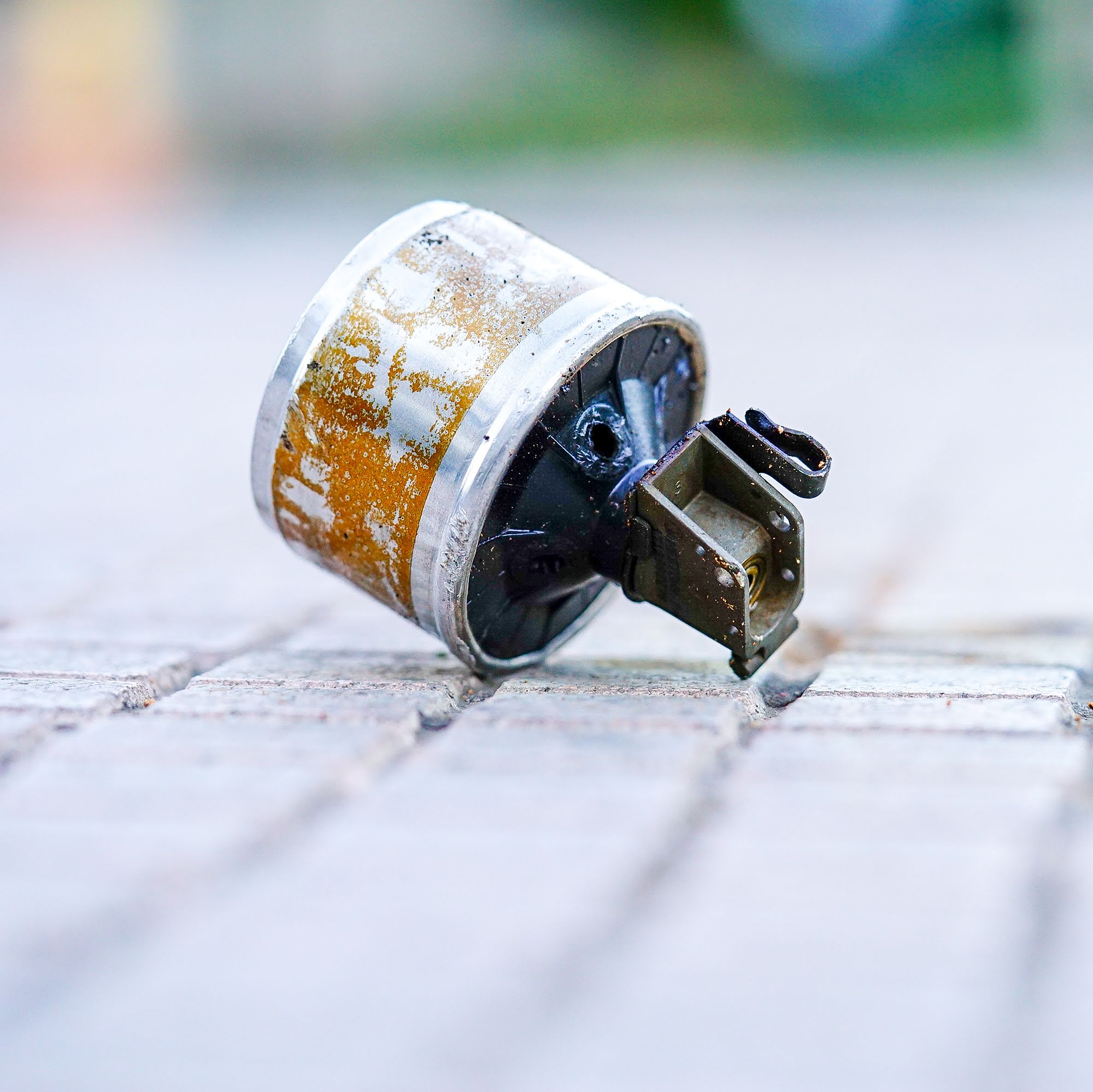 Sunday, october 20th - More than 20 thousand people gathered at the Plaza de Los Heroes (Heroes Square) at the very center of the city of Rancagua to peacefully demonstrate their will for a deep change of the state politics. This was the first masive march in more than 30 years.